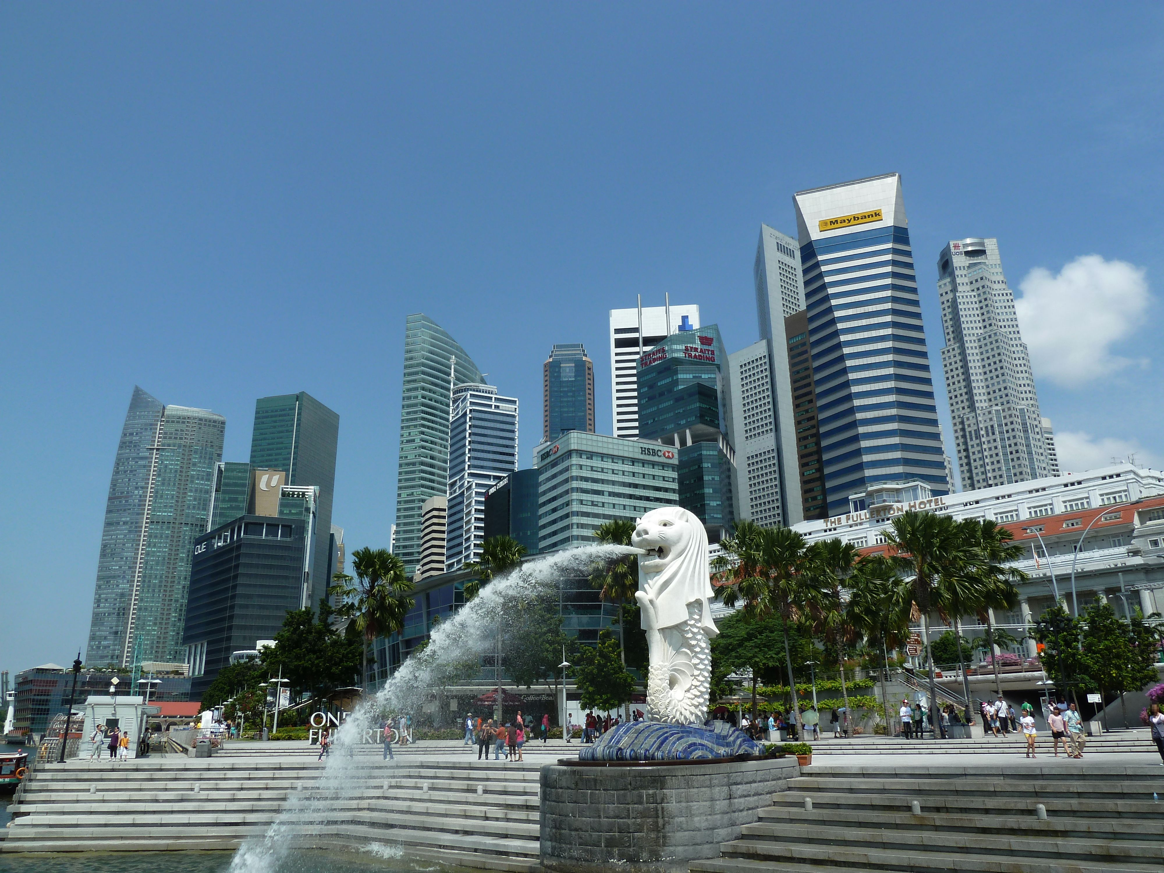 The Merlion statue in Merlion Park, Singapore, with the skyline of the Central Business District in the background.